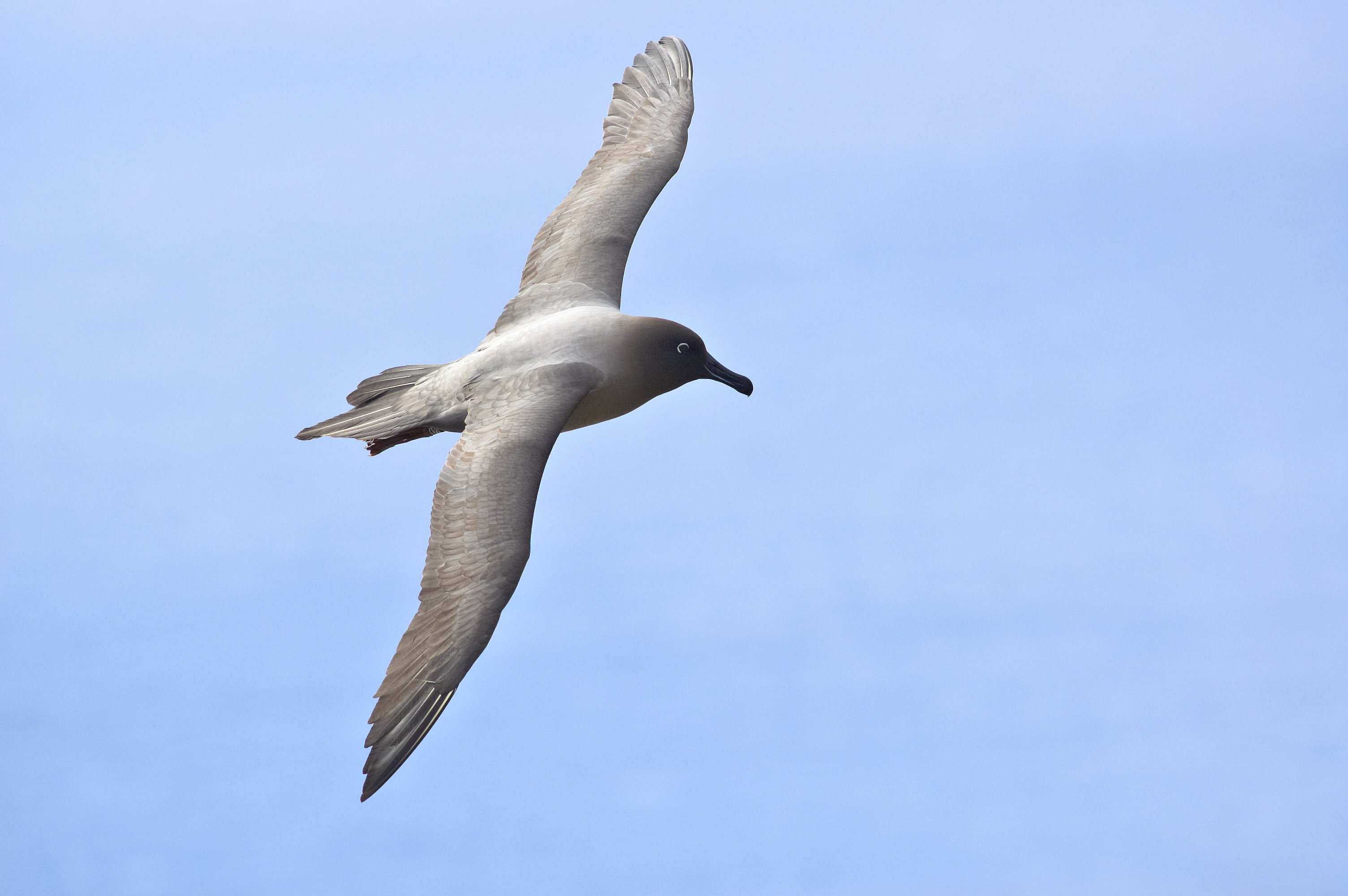 Light-mantled Albatross Flying